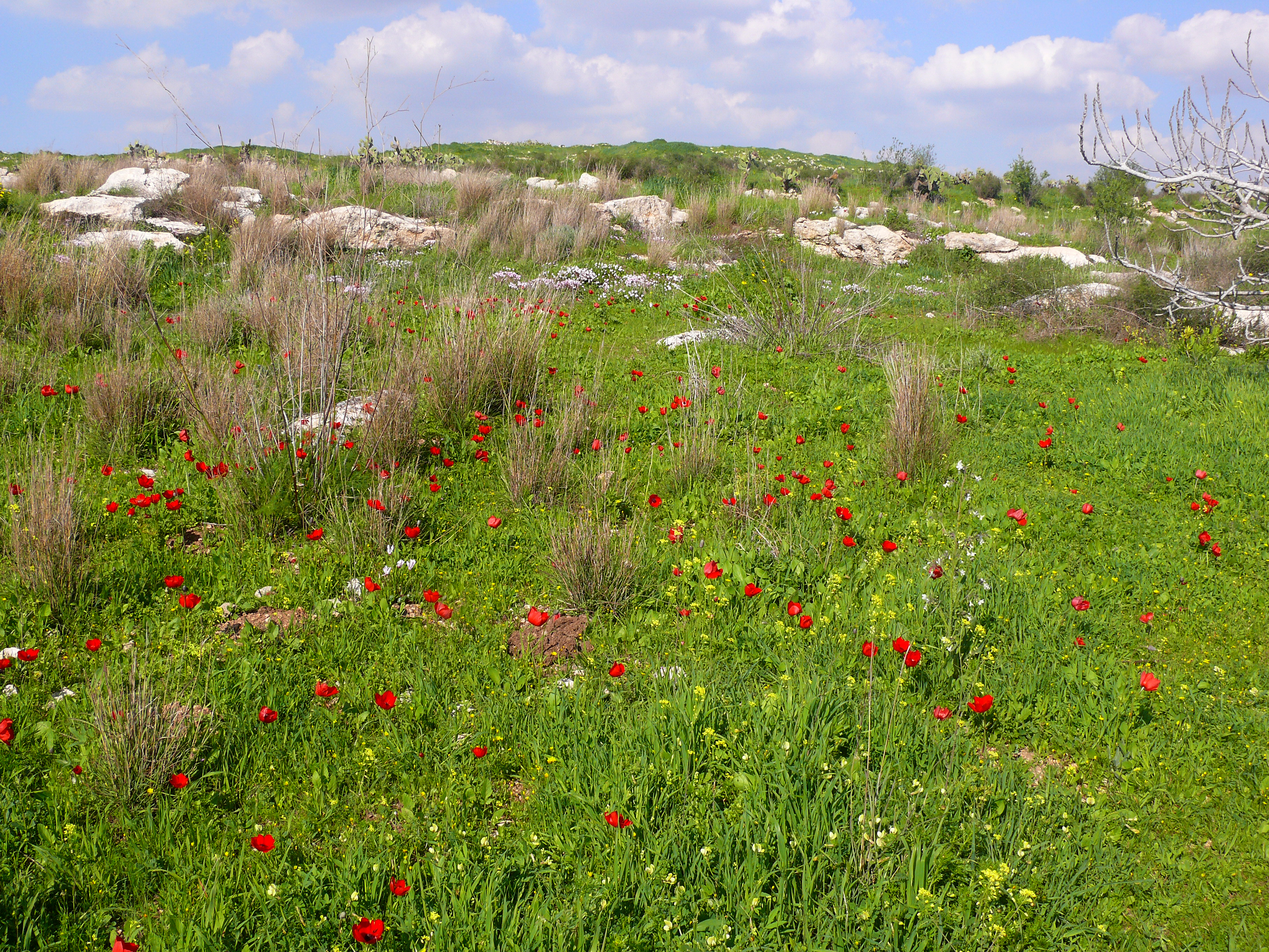 The Titora Hill (Givat HaTitora), Modi'in, Iseael